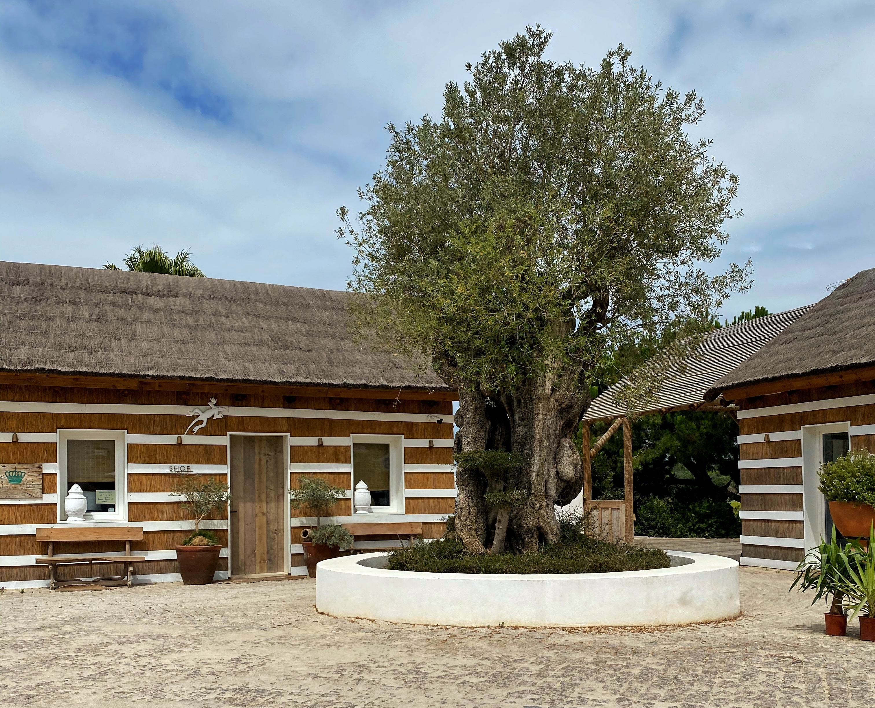 Quinta da Comporta